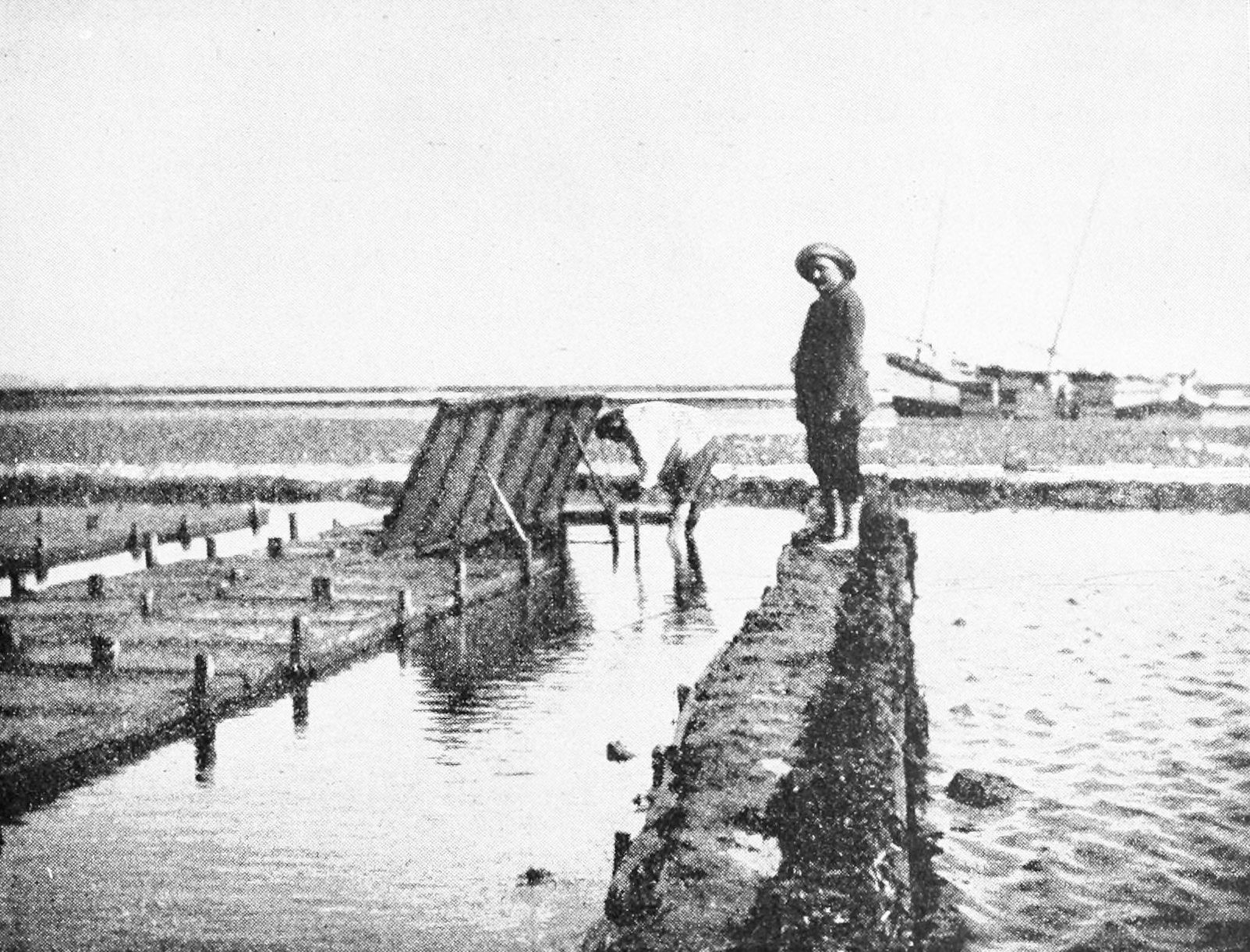 Sorting the growing seed oysters at Arcachon